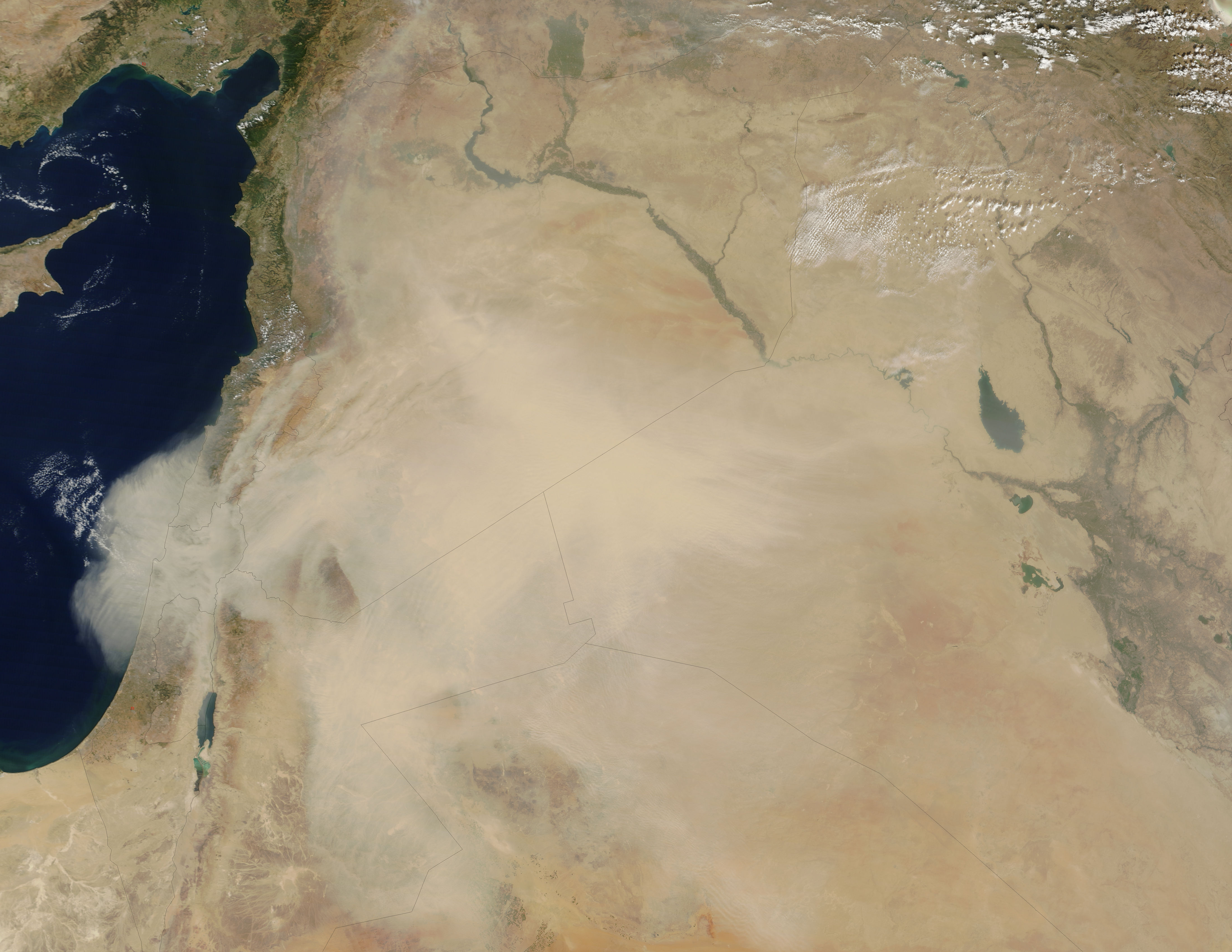 Dust storm in the Middle East